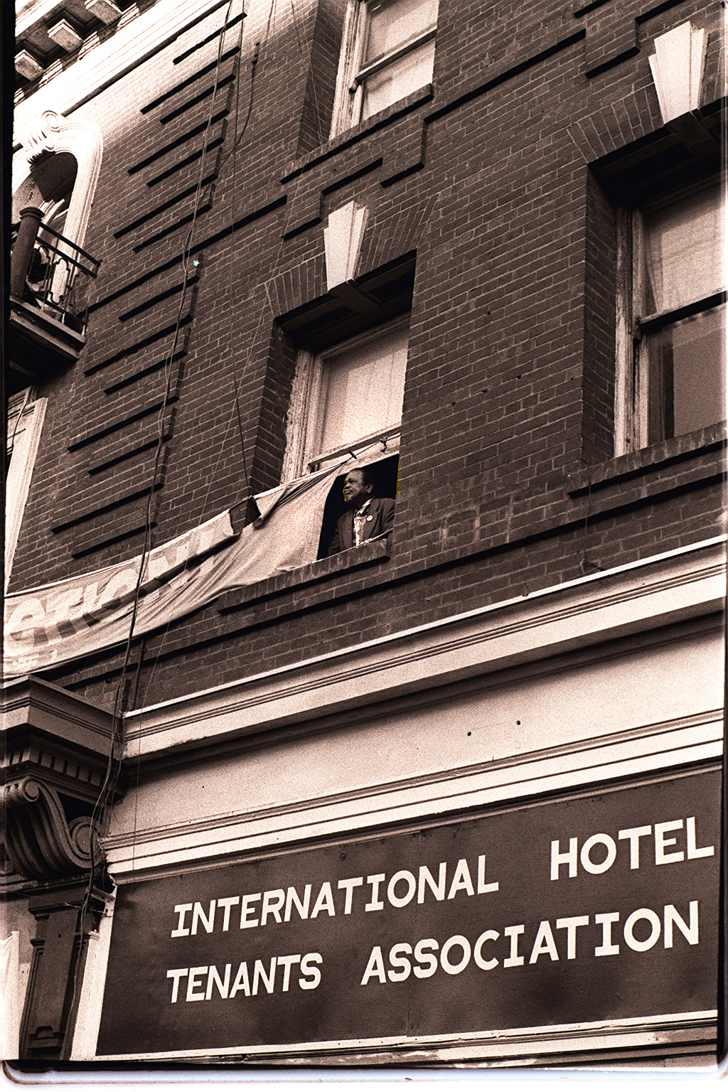 Joe Diones, who was the manager of the I-Hotel looks out the window of the hotel on 848 Kearny Street in San Francisco's Manilatown January 1977 during a protest that drew nearly 3000 people. Photo by Nancy Wong